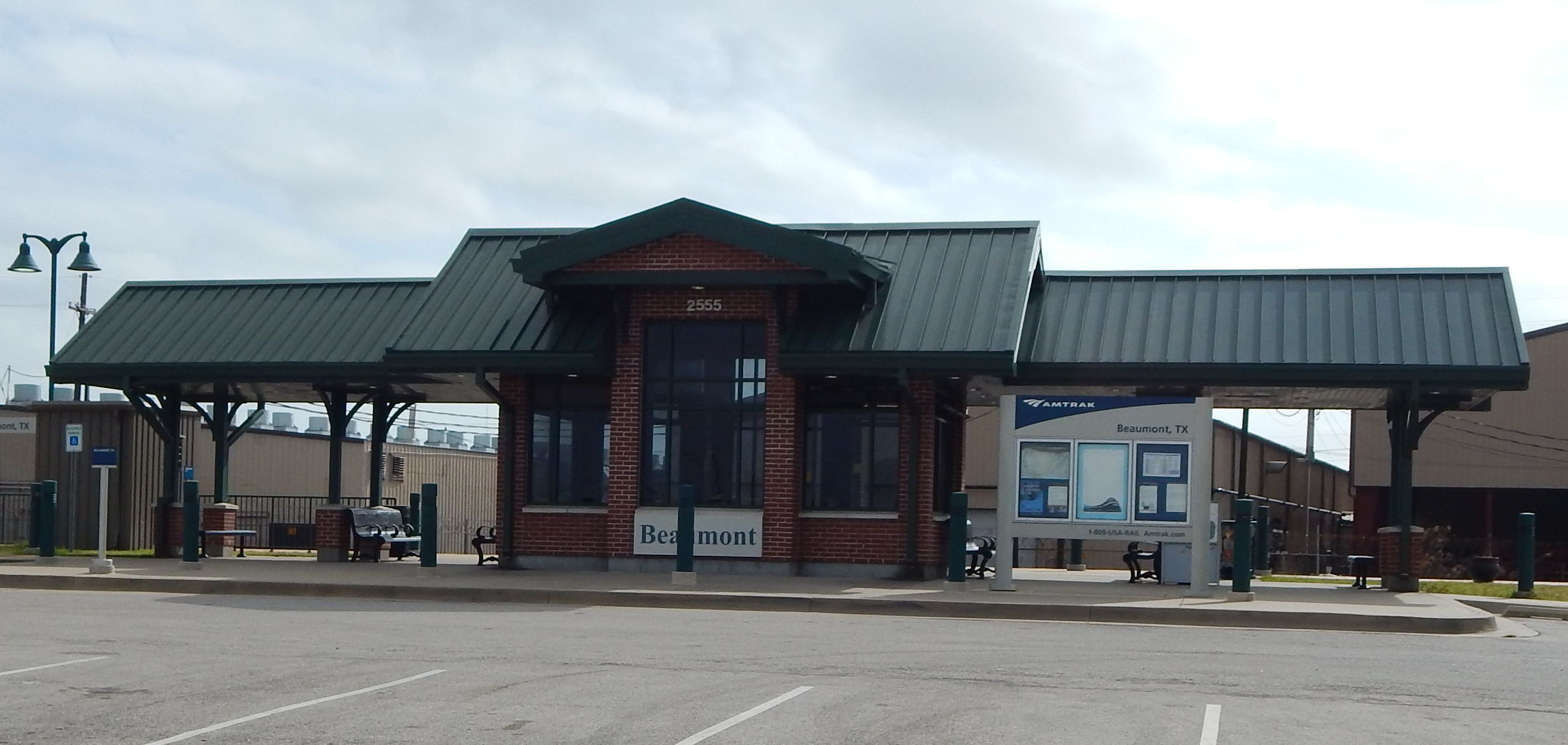 Beaumont, TX Amtrak Station closeup